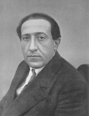 József Pogány writer, journalist (1886–1939)